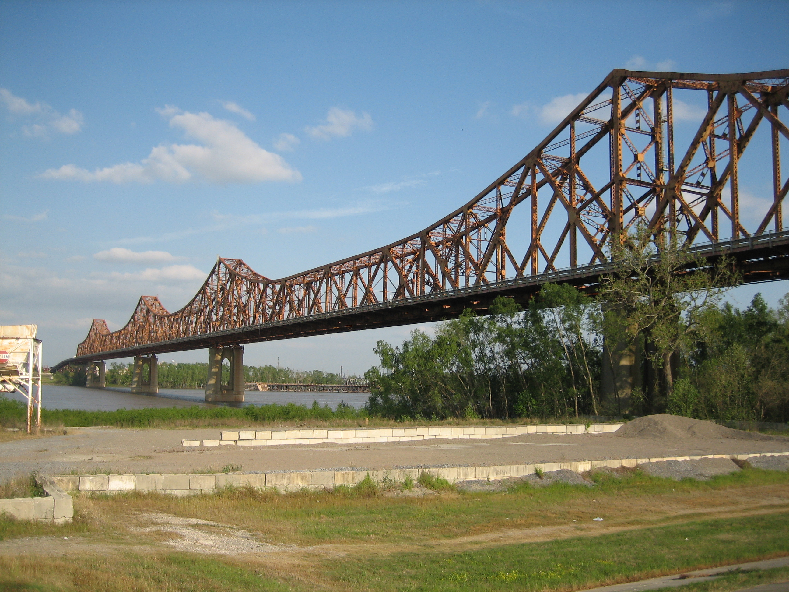 Huey P. Long Bridge (Baton Rouge) over the Mississippi River from northwest, as seen from the west bank. Taken by me, User:Christopherlin, 2006-04-01.